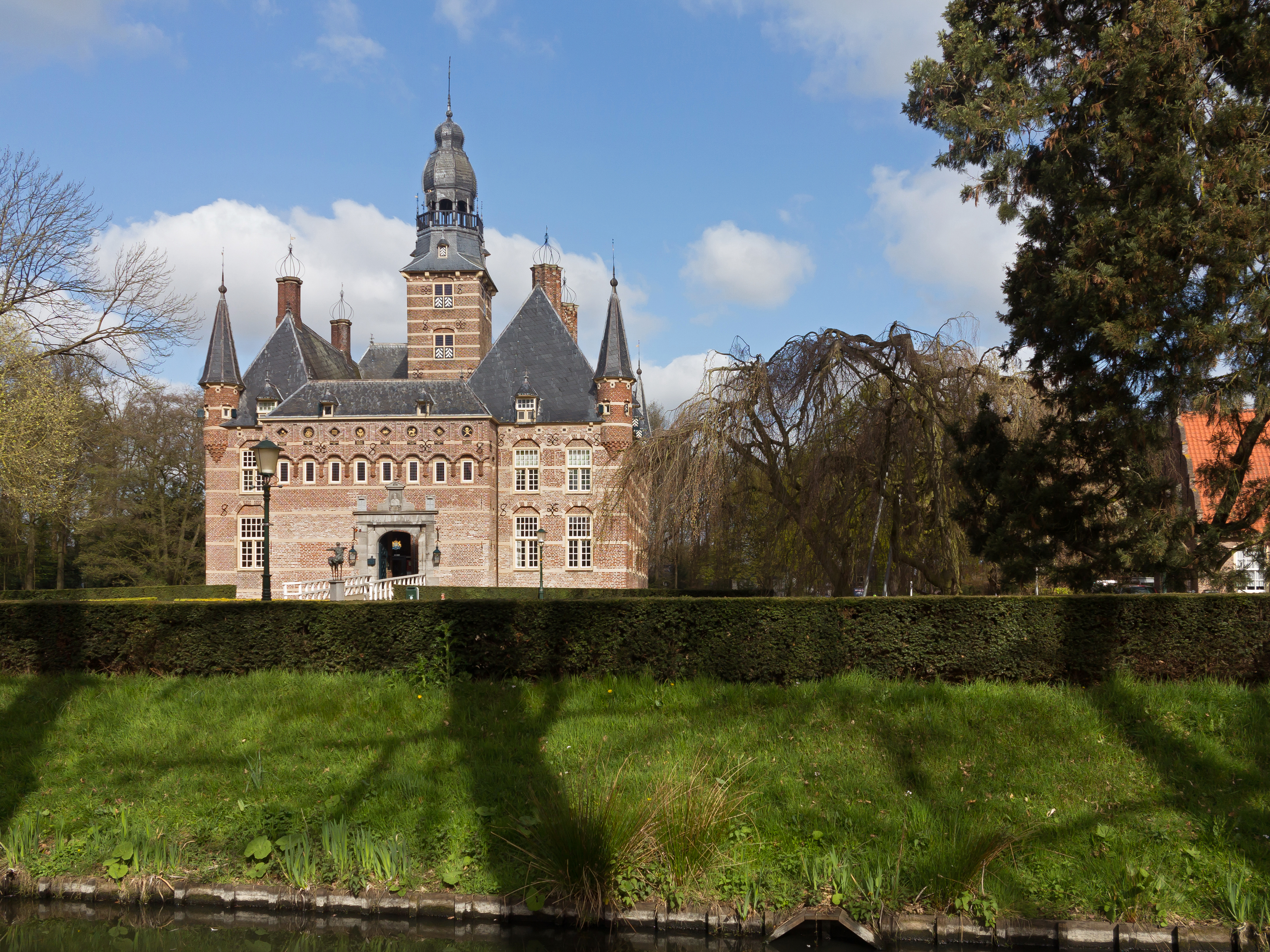 Wijchen, castle: kasteel Wijchen